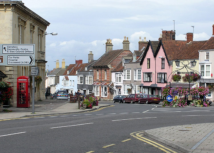 The lower end of High Street, Thornbury, near Bristol, England. Taken by Adrian Pingstone in September 2004 and released to the public domain. With respect, what this picture actually shows is a small part of The Plain and the top half of Castle Street in Thornbury. The High Street is behind the photographer. My credentials for saying this are that I've lived in Castle Street (further down than the picture shows) for 30 years.